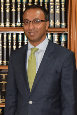 District Judge Amit P. Mehta